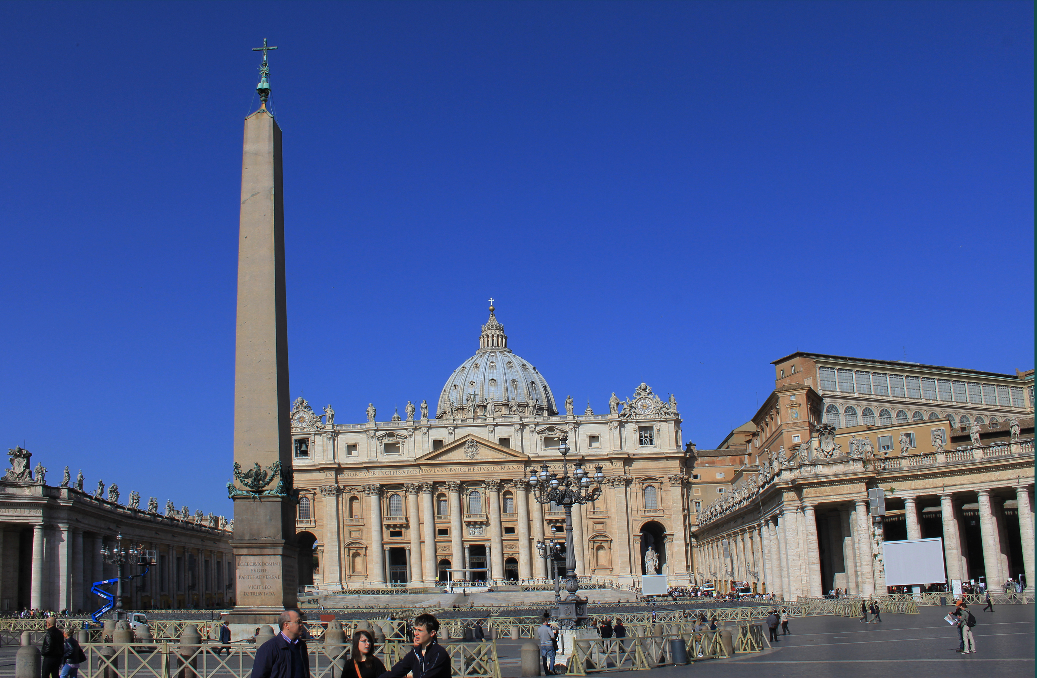 Façade of St. Peter's Basilica and Vatican obelisk as seen from Saint Peter's Square